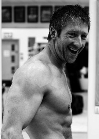 Actor Mark Strange — Stunt performer.